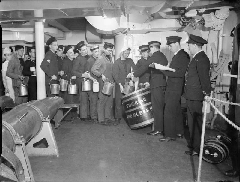 Rum Ration Aboard HMS King George V, 1940 Below deck, a line of seamen queue to collect the daily rum ration for their mess. Each man is holding a jug or bucket. The rum is being issued from a large barrel with 'THE KING - GOD BLESS HIM' on it. Royal Marines issue the rum with measuring jugs while a Royal Navy Petty Officer and Sub-Lieutenant observe.